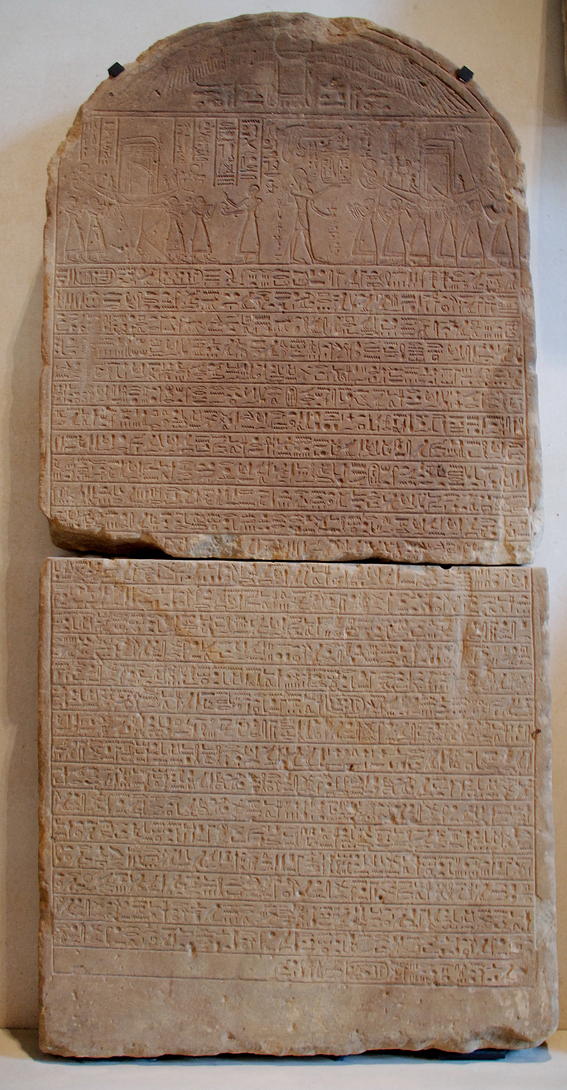 Stele, which describes regaining the princess of Bakhtan's health; from the temple of Khonsu in Karnak; 21st or 22nd dynasty (1069 - 715 BC).